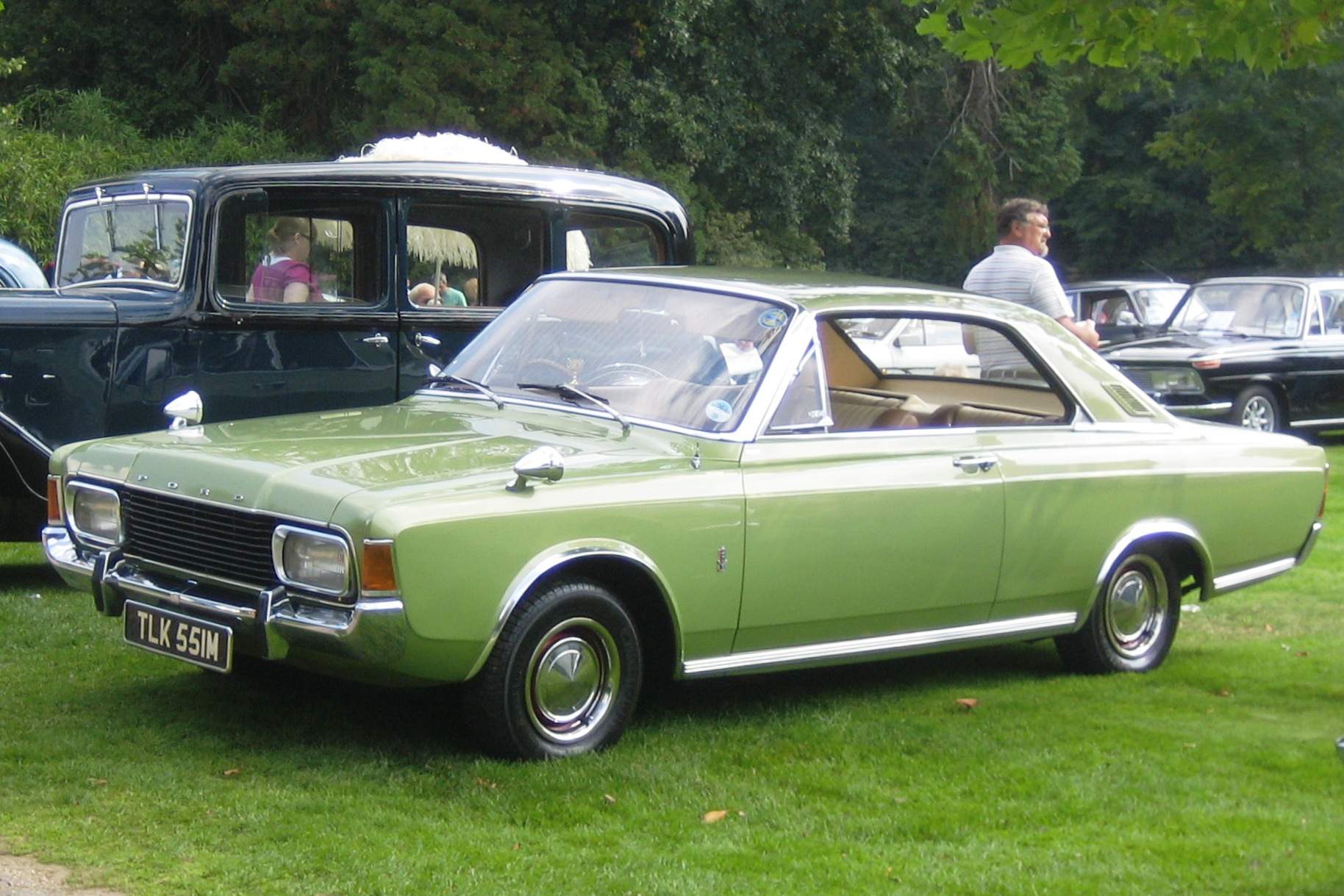 Ford Taunus 20M coupe. License plate date (if the original license plate which cannot be taken for granted) implies that it must have been one of the last ones made. Right had drive may have resulted from retrospective conversion since these cars were not officially sold in UK or Ireland.